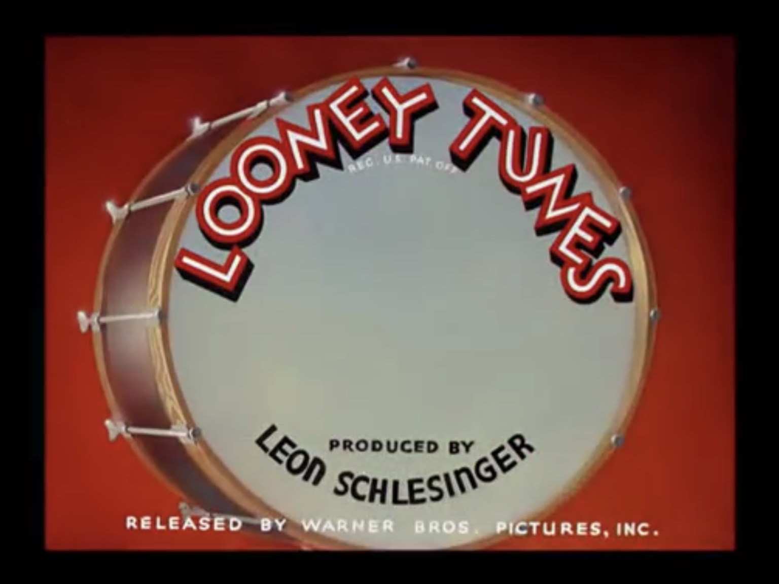 The classic ending of the Looney Tunes with Porky popping out of a drum.